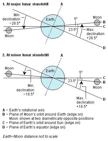 Diagram of the relative positions during mayor and minor Lunar Standstill